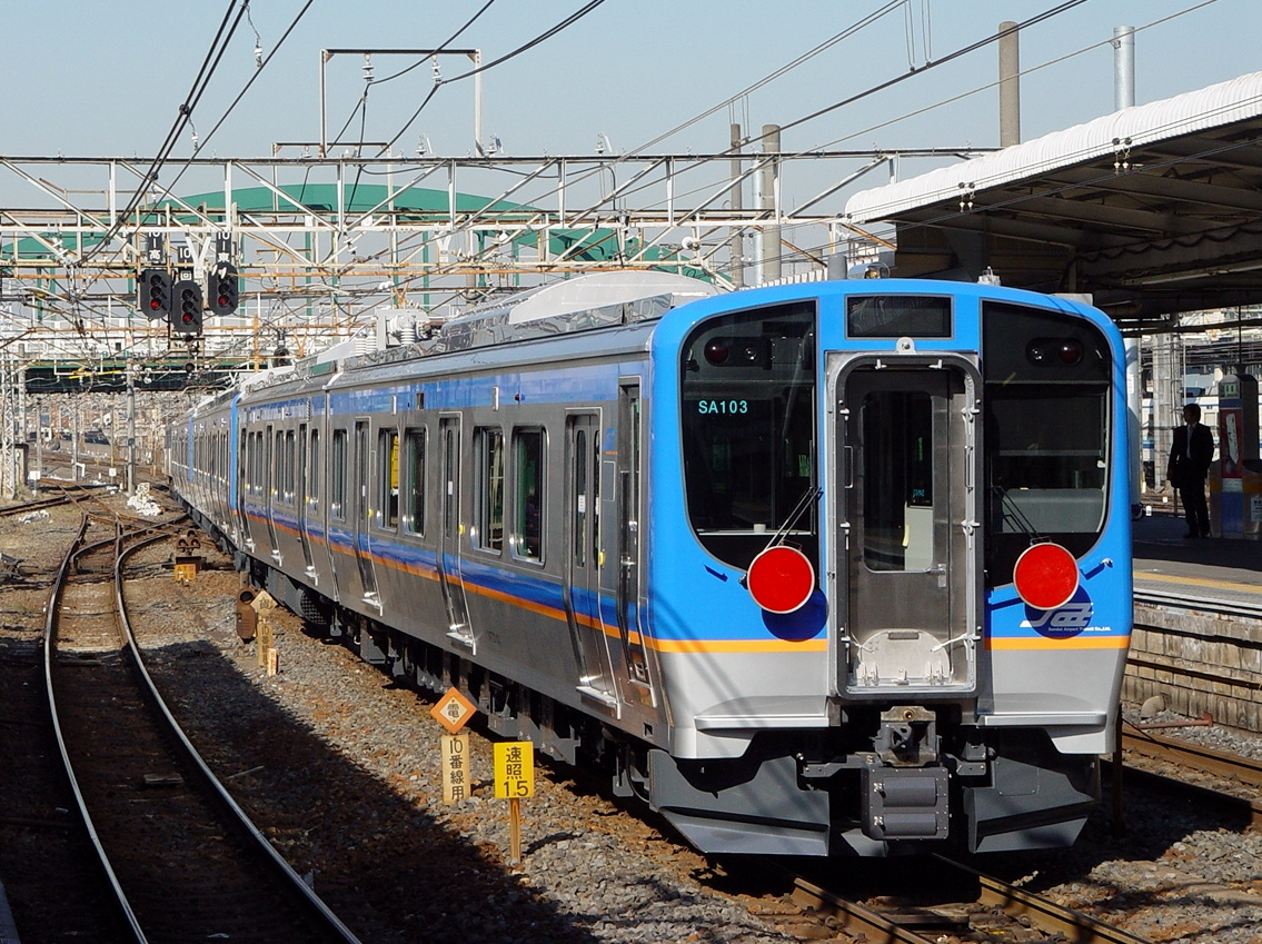 Three SAT721 series 2-car EMU sets (SA101 to SA103) being hauled through Omiya Station in Saitama on delivery from Kawasaki Heavy Industries in Kobe to Sendai